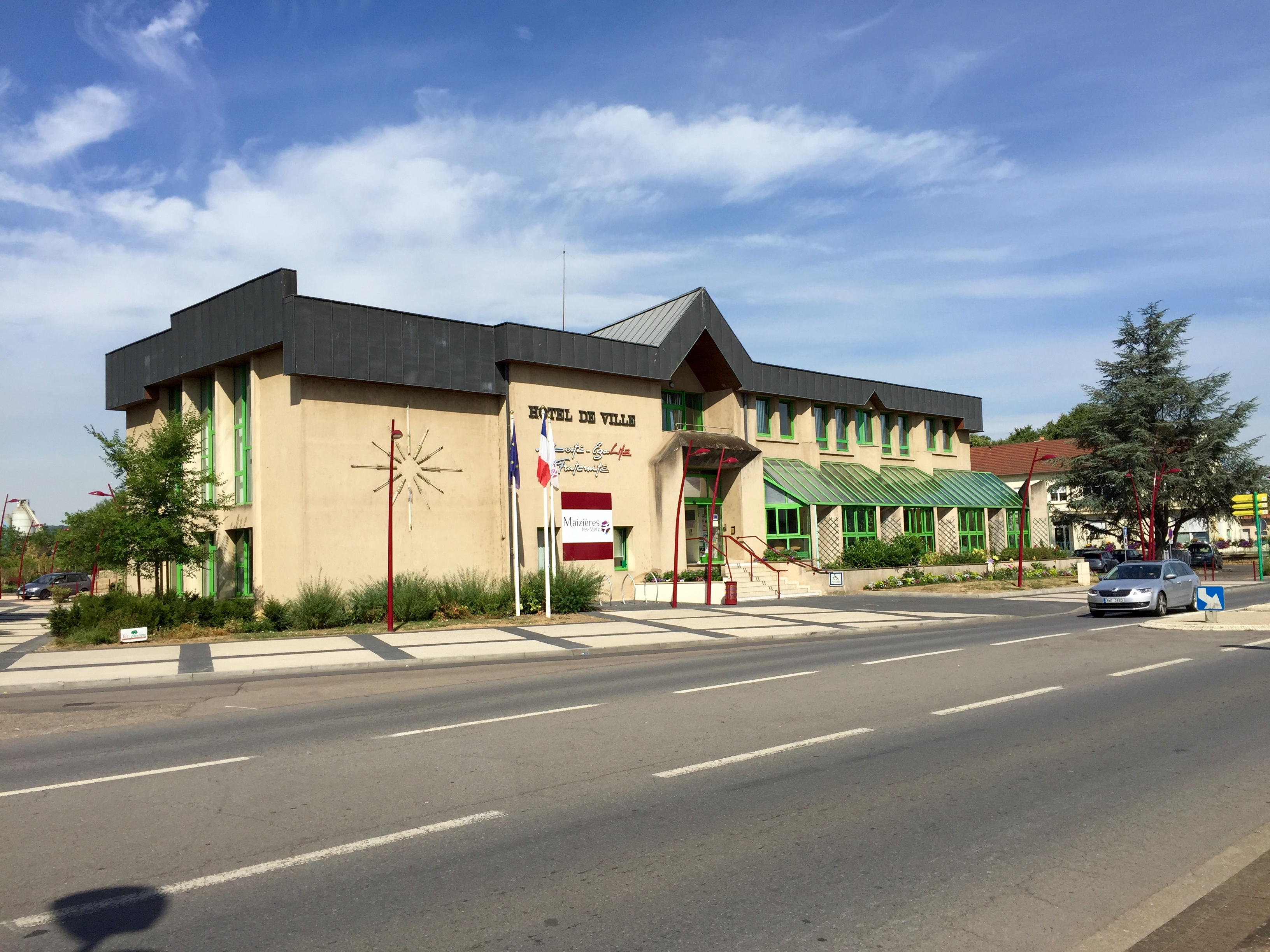 City hall of Maizières-lès-Metz